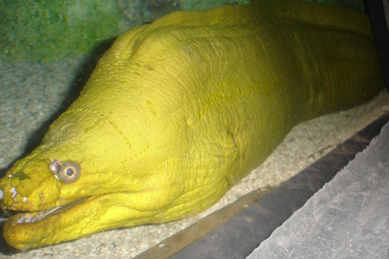 Green moray (Gymnothorax funebris) in a closed aquarium at the Albuquerque Aquarium.